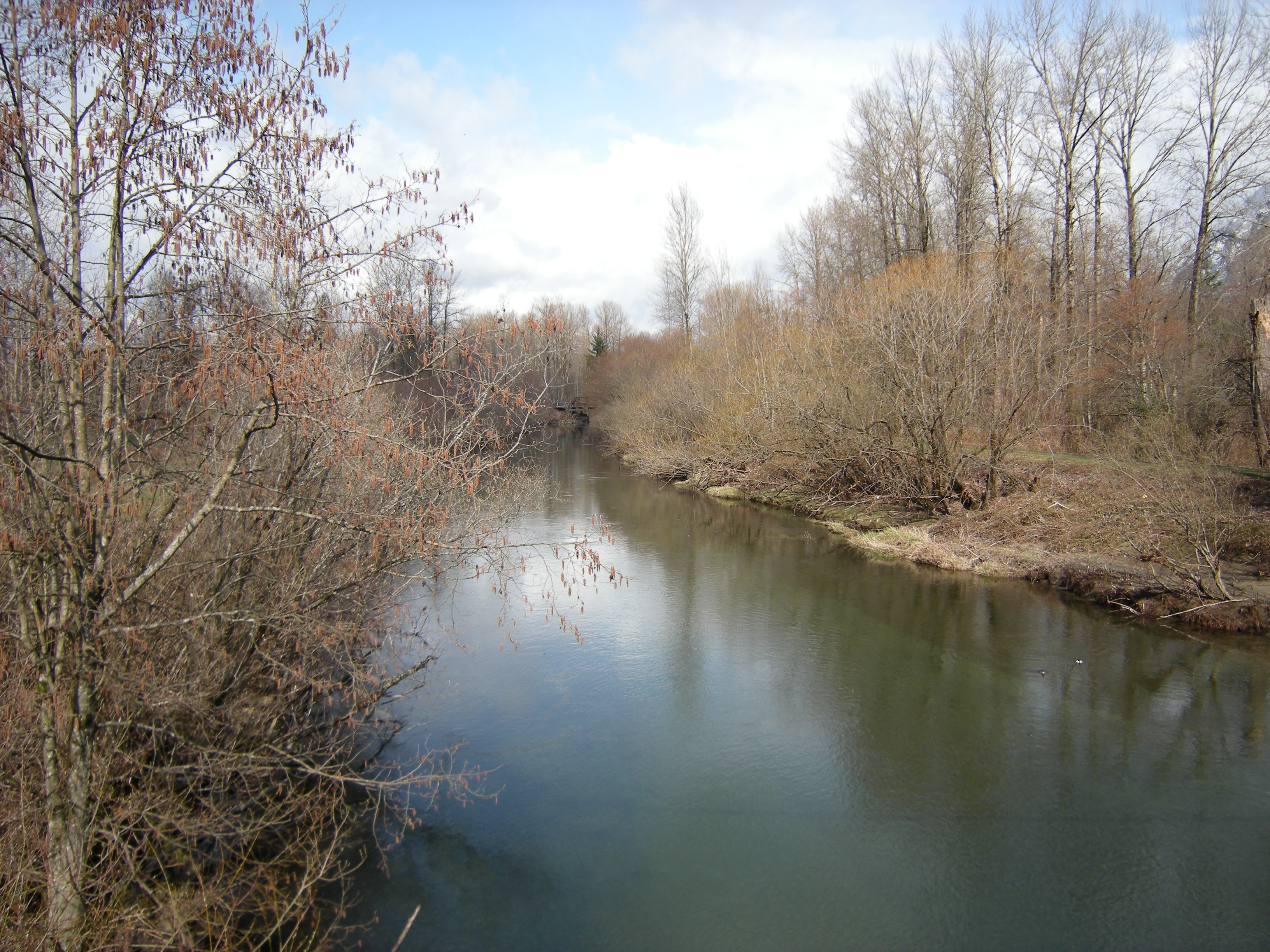 South fork of the Snoqualmie River, looking north from SR-202, North Bend, Washington, USA.